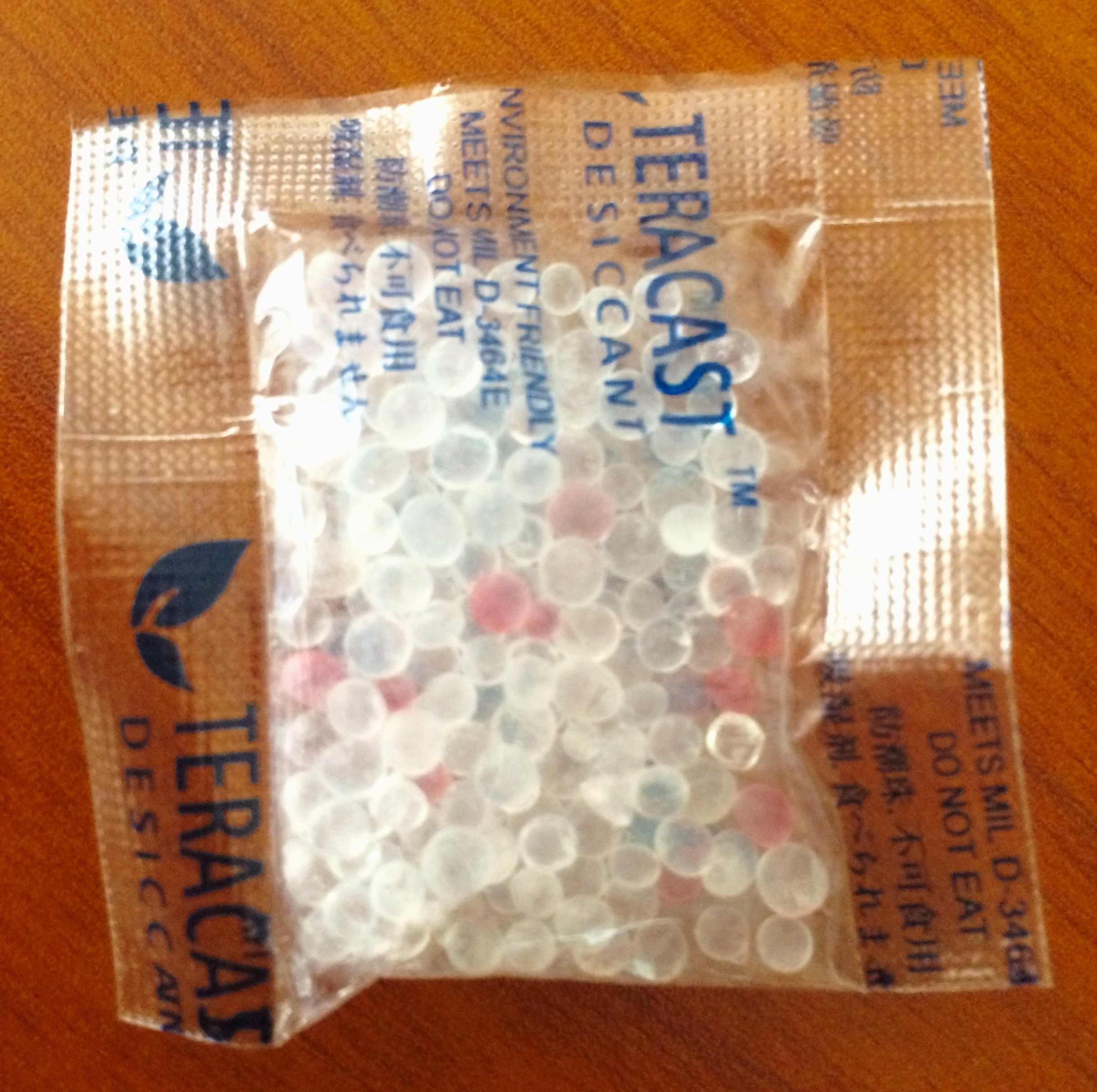 Silica gel.